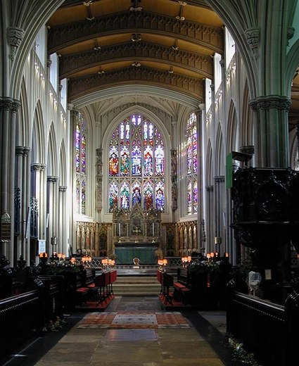 St Peter, Leeds Parish Church - East end